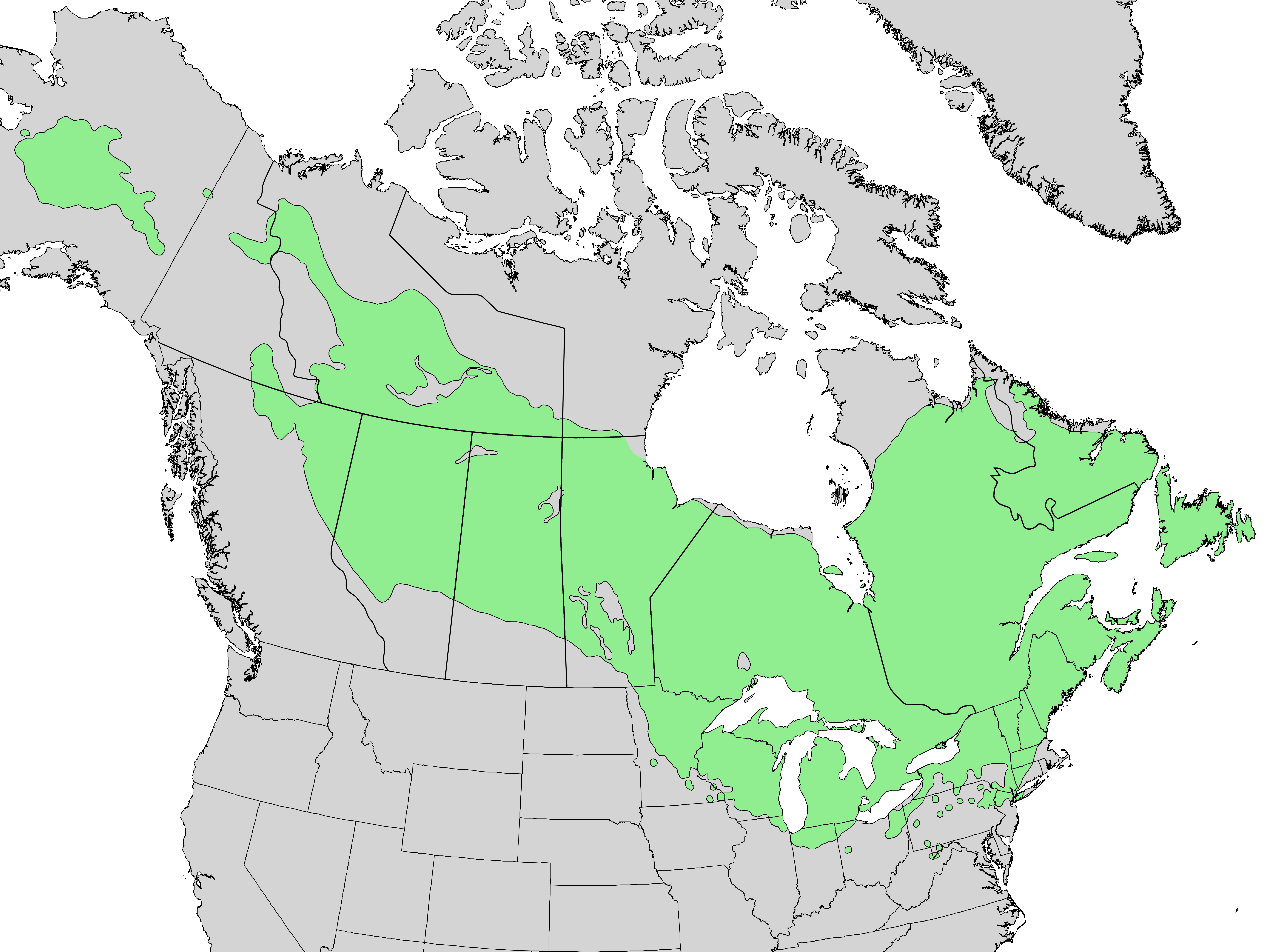 Natural distribution map for Larix laricina (tamarack)